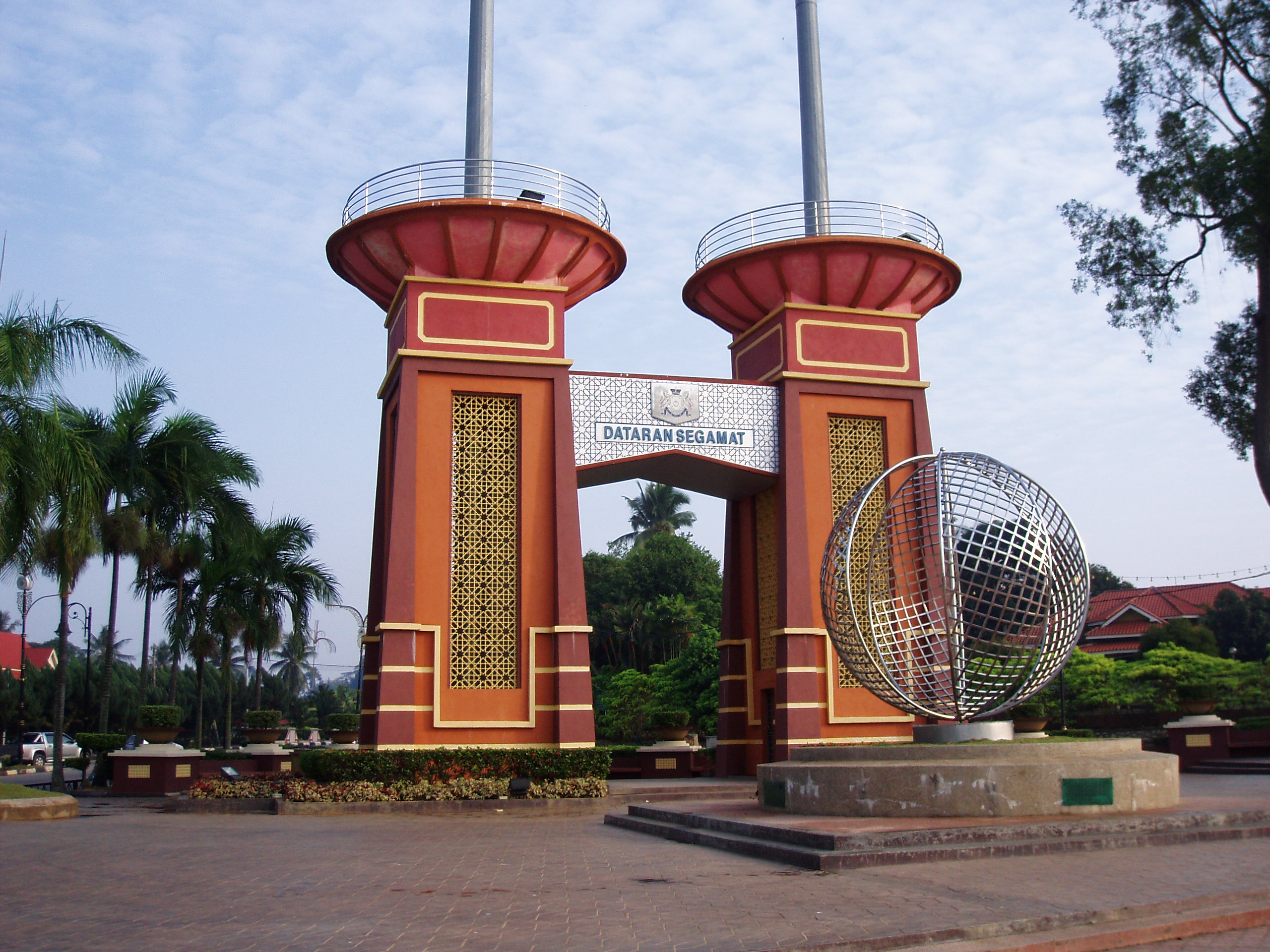 Segamat Square, Segamat, Johor, Malaysia